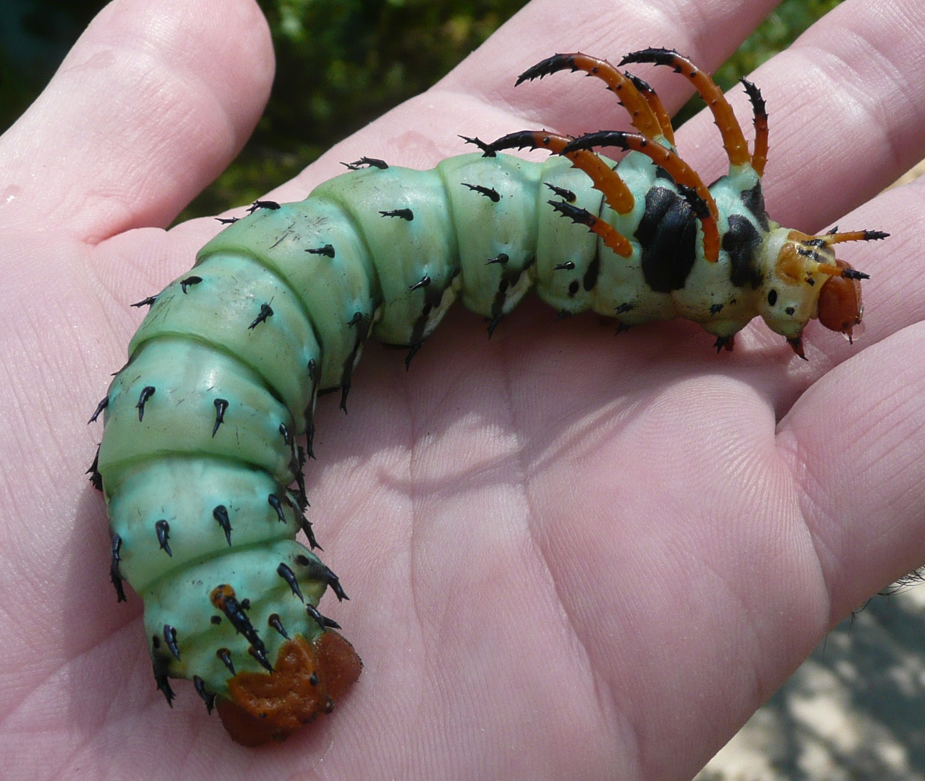 Hickory horned devil (Citheronia regalis), larval stage of regal moth. Ozarks of Missouri.